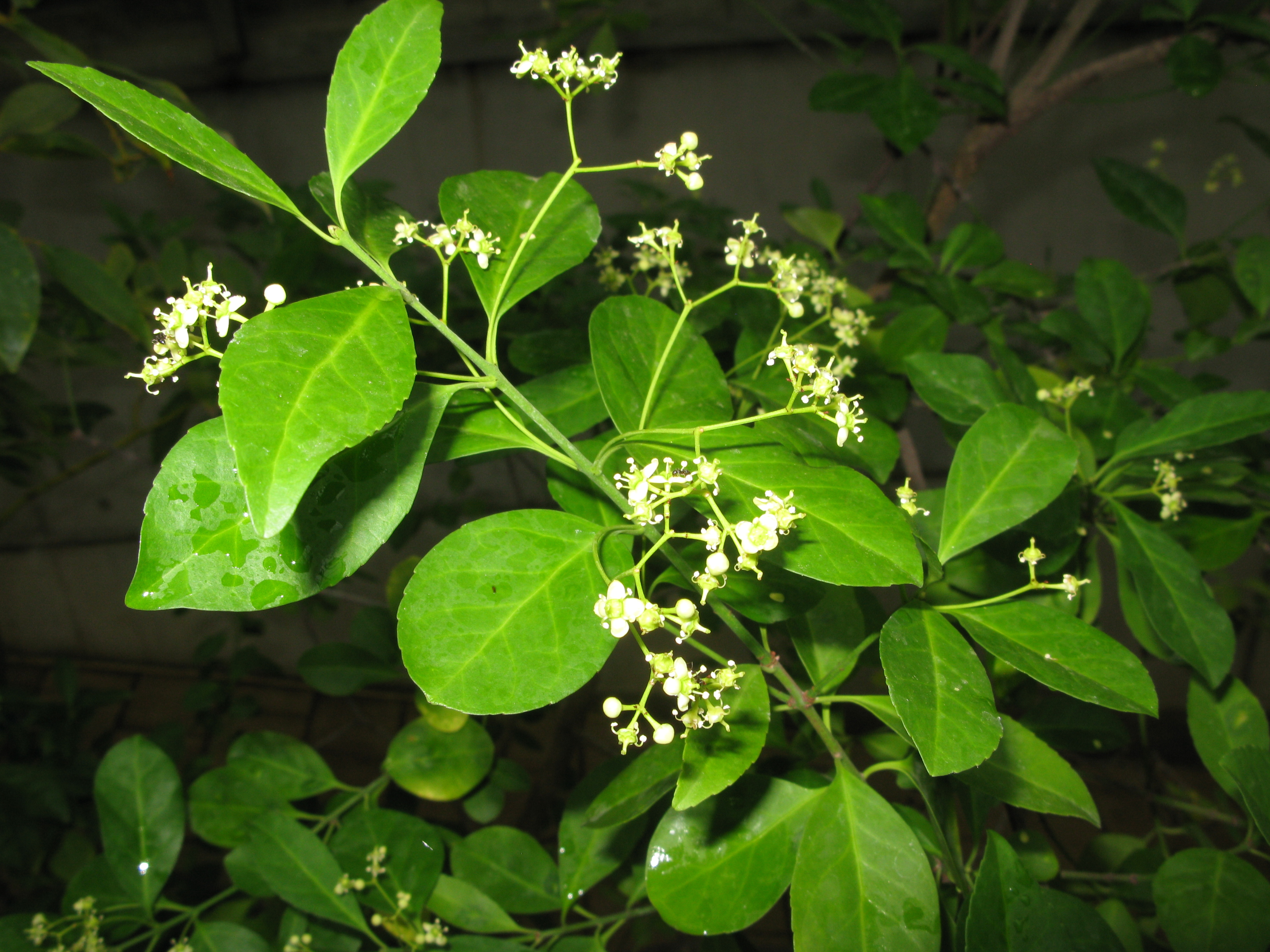 Euonymus boninensis, Yumenoshima Tropical Greenhouse Dome, Tokyo, Japan